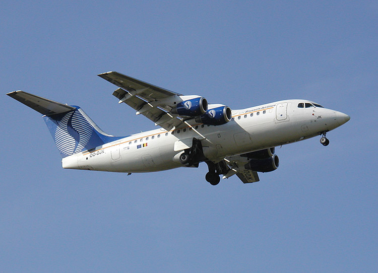 SN Brussels Airlines Avro RJ-85 regional jet lands at London (Heathrow) Airport.